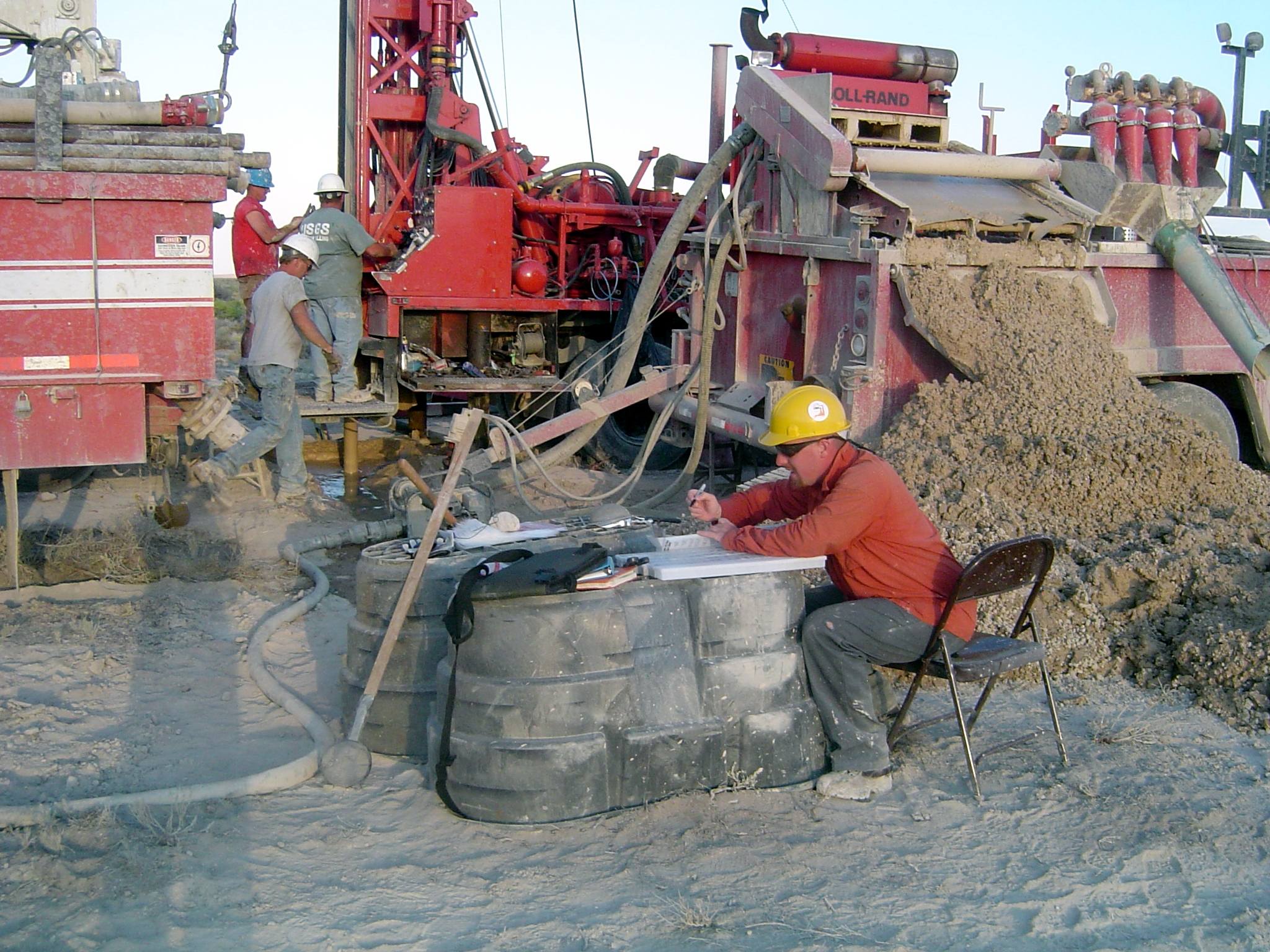 A picture of a mud log in process. Mud logging is the process of recording the lithology a rotary drill penetrates, typically used in oil well drilling.